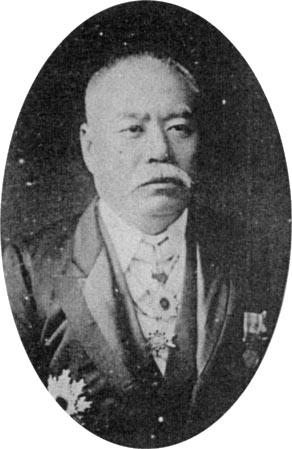 Ayahiko Ishibashi, Director and Principal of Koshu Gakko.